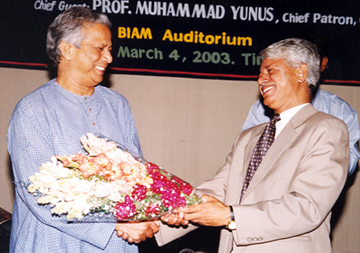 Mr. Ghulam Mustafa, President, Chittagong University Ex-Economics Students Association (CUEESA) presenting bouquette to Prof. Muhammed Yunus, Founder Managing Director of world-famous Grameen Bank and Microcredit Micro-Credit Concept at BIAM Auditorium on March 04, 2003.